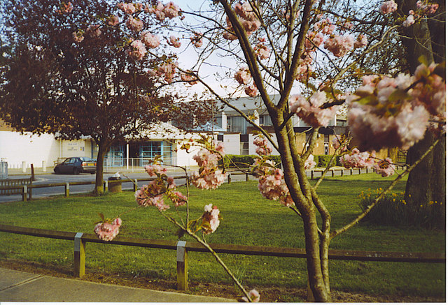 Cranleigh Leisure Centre. It is located in a functional area of civic buildings and shops.